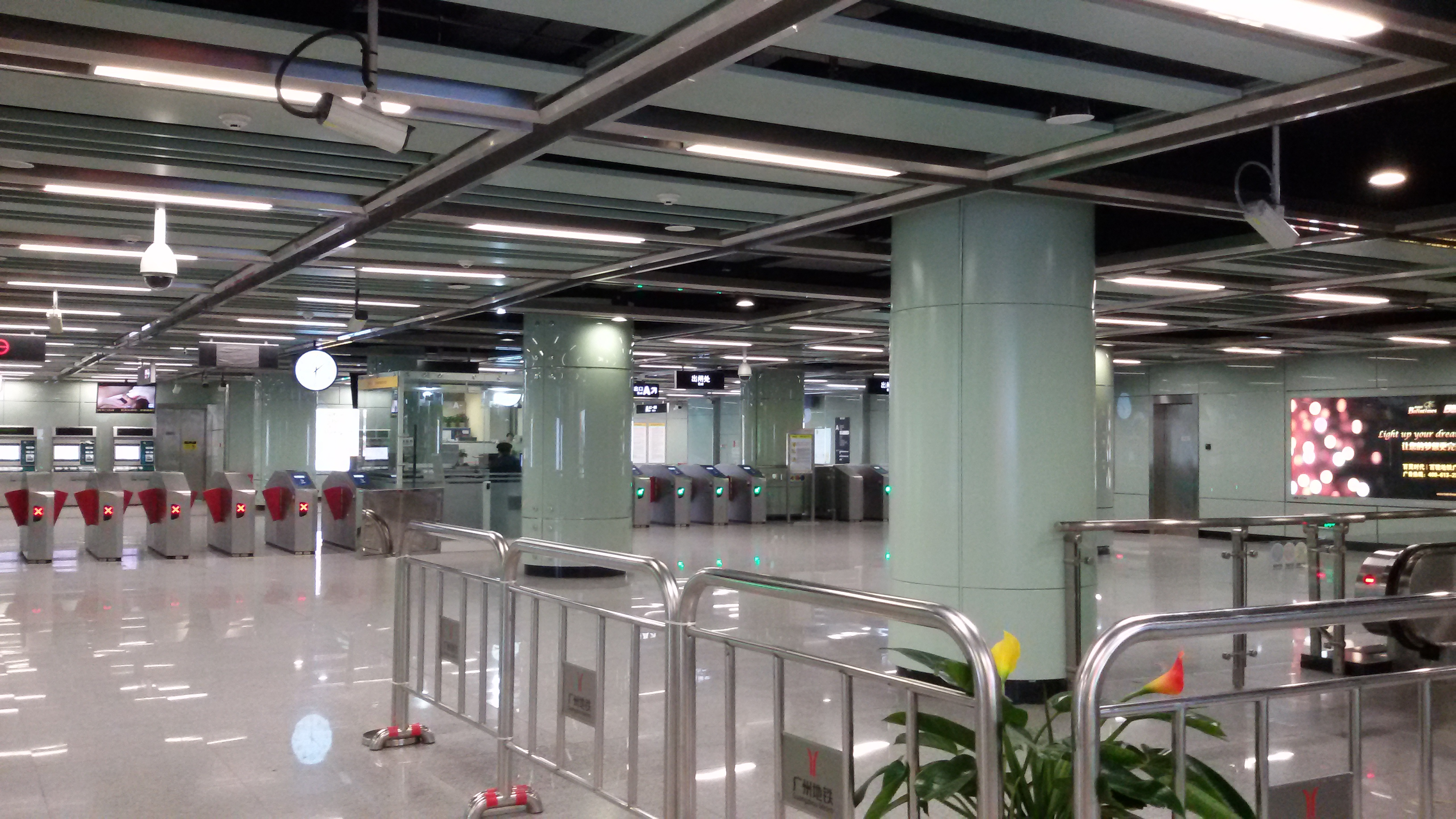 Station Concourse for Yide Lu Station in Guangzhou Metro.